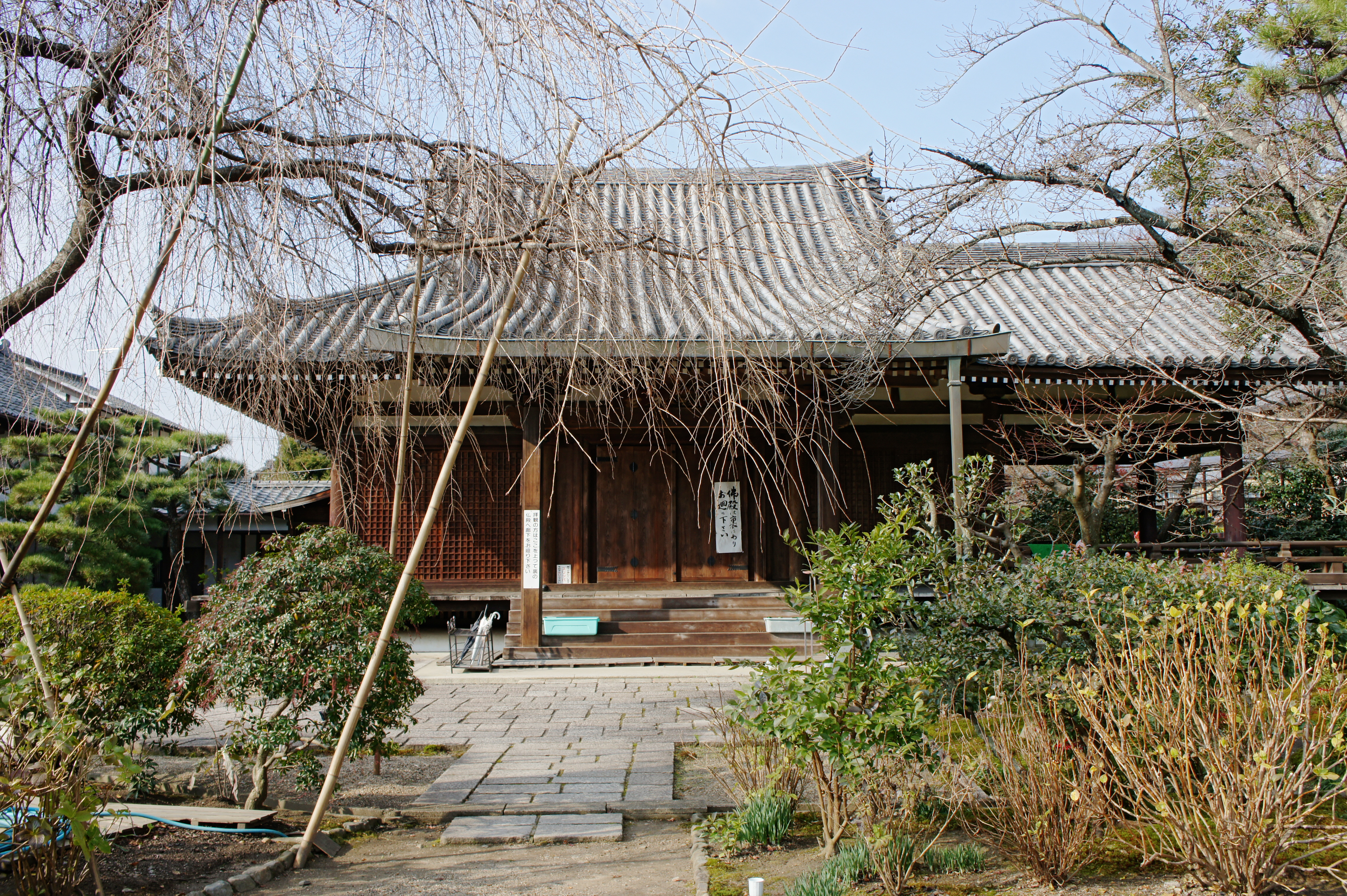 Hōkongō-in in Ukyō-ku, Kyoto, Kyoto Prefecture, Japan. Seijo-no-taki of Hōkongō-in Garden that is an extremely important cultural asset of Japan "Special Places of Scenic Beauty"